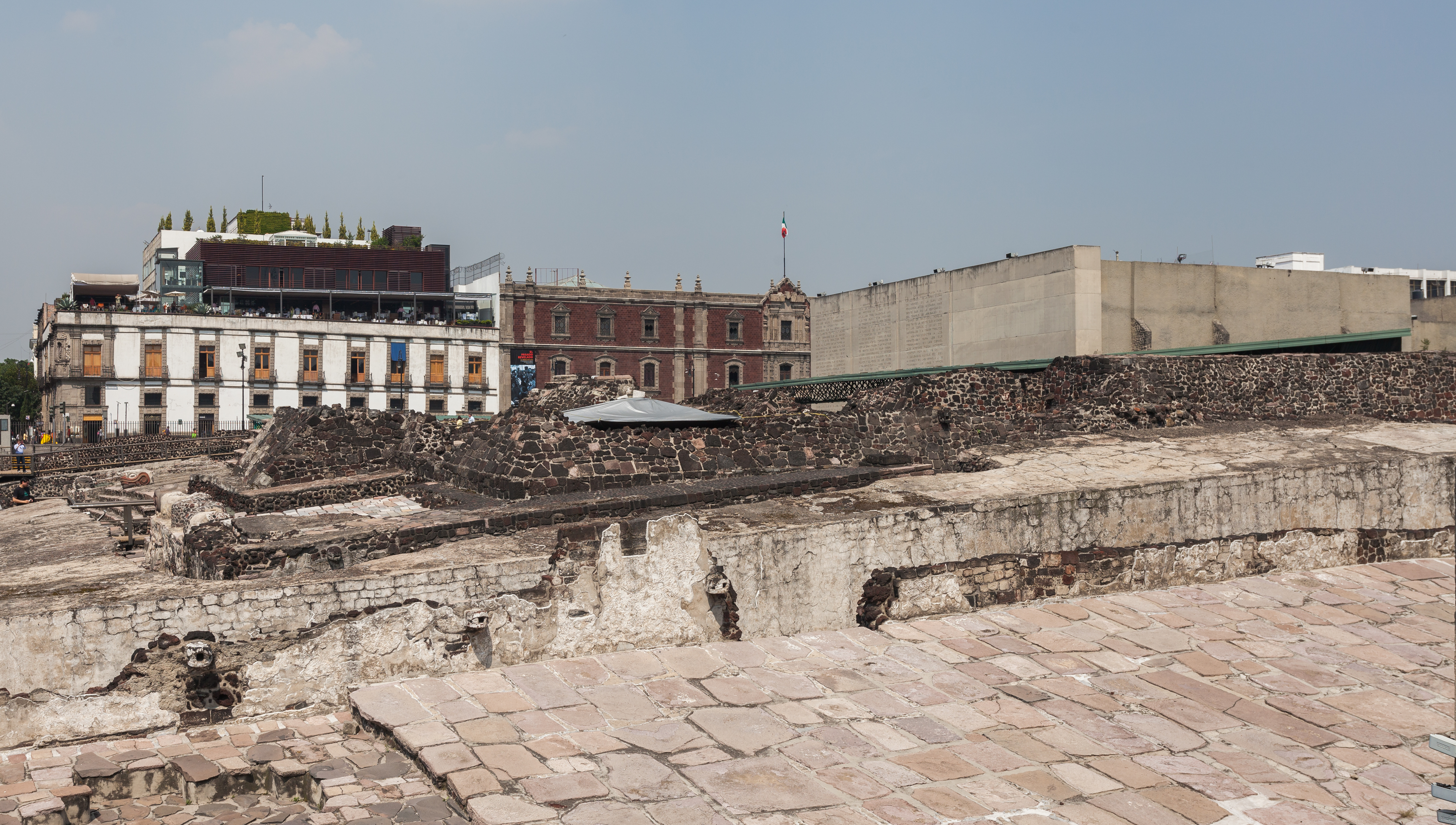 Templo Mayor, Mexico City, Mexico